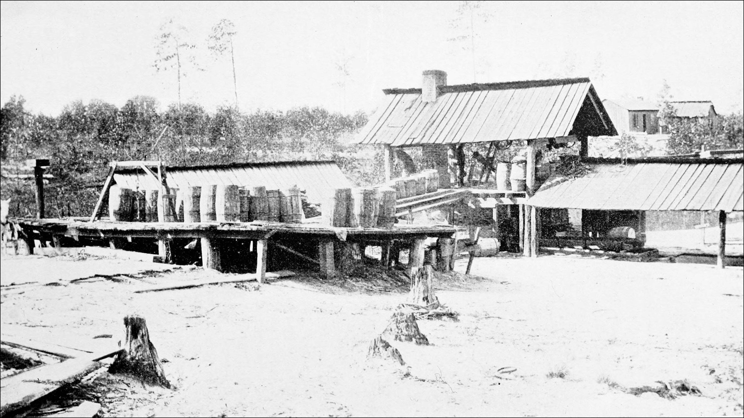 Turpentine still at Manly, North Carolina